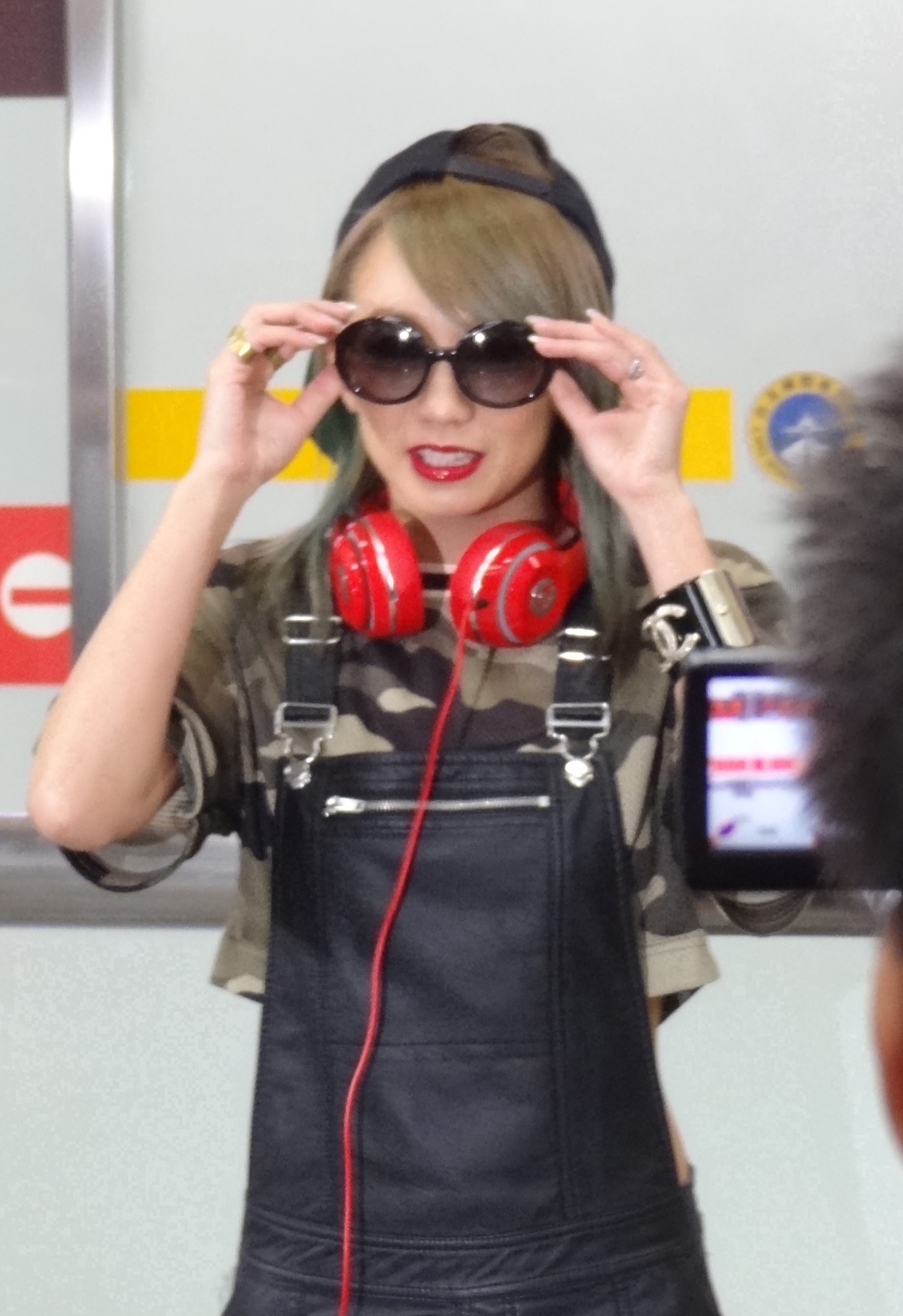 2013-10-09 @Taipei Songshan Airport by de81112